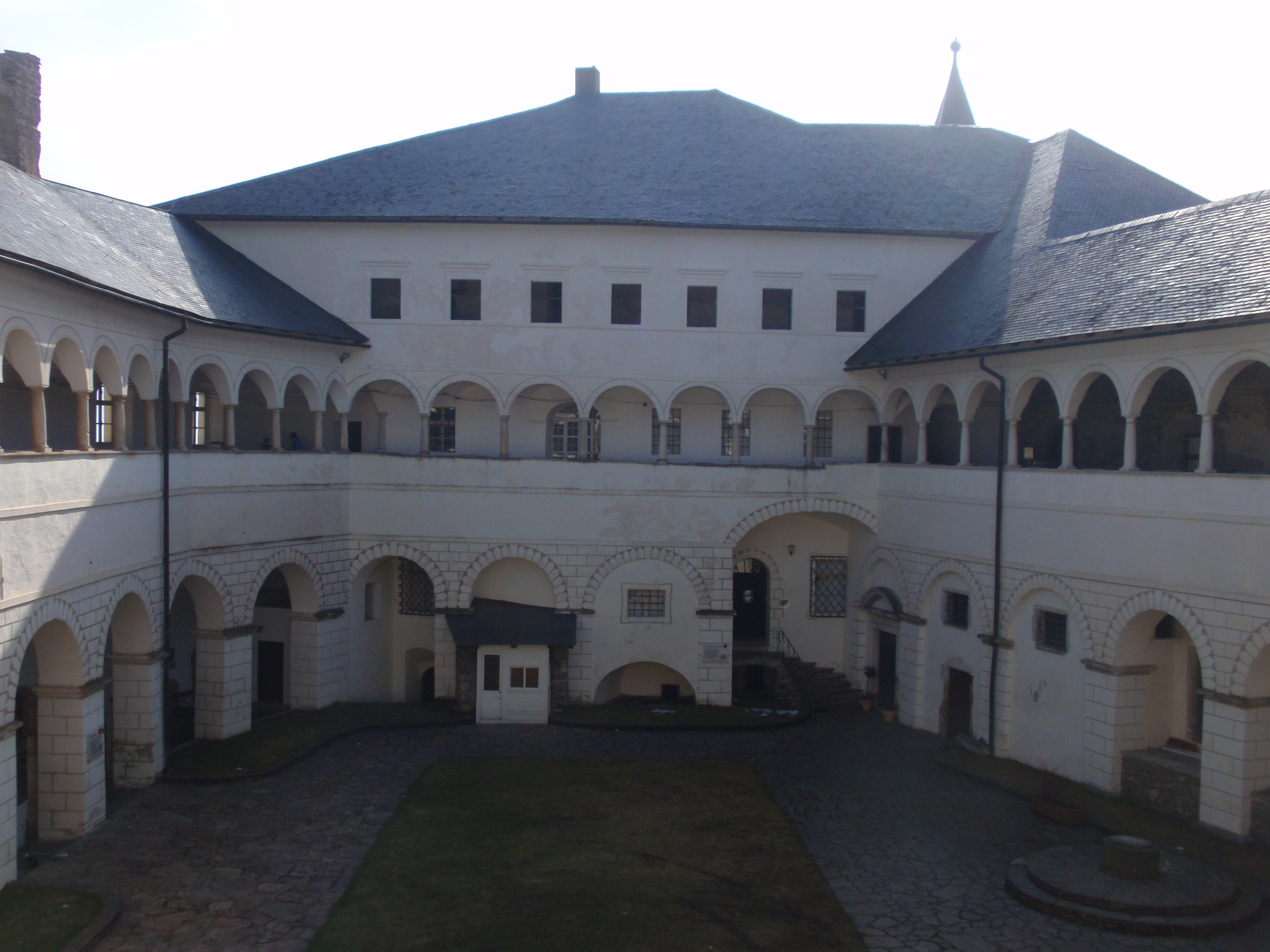 Court in the Strassburg Castle in Carynthia, Austria